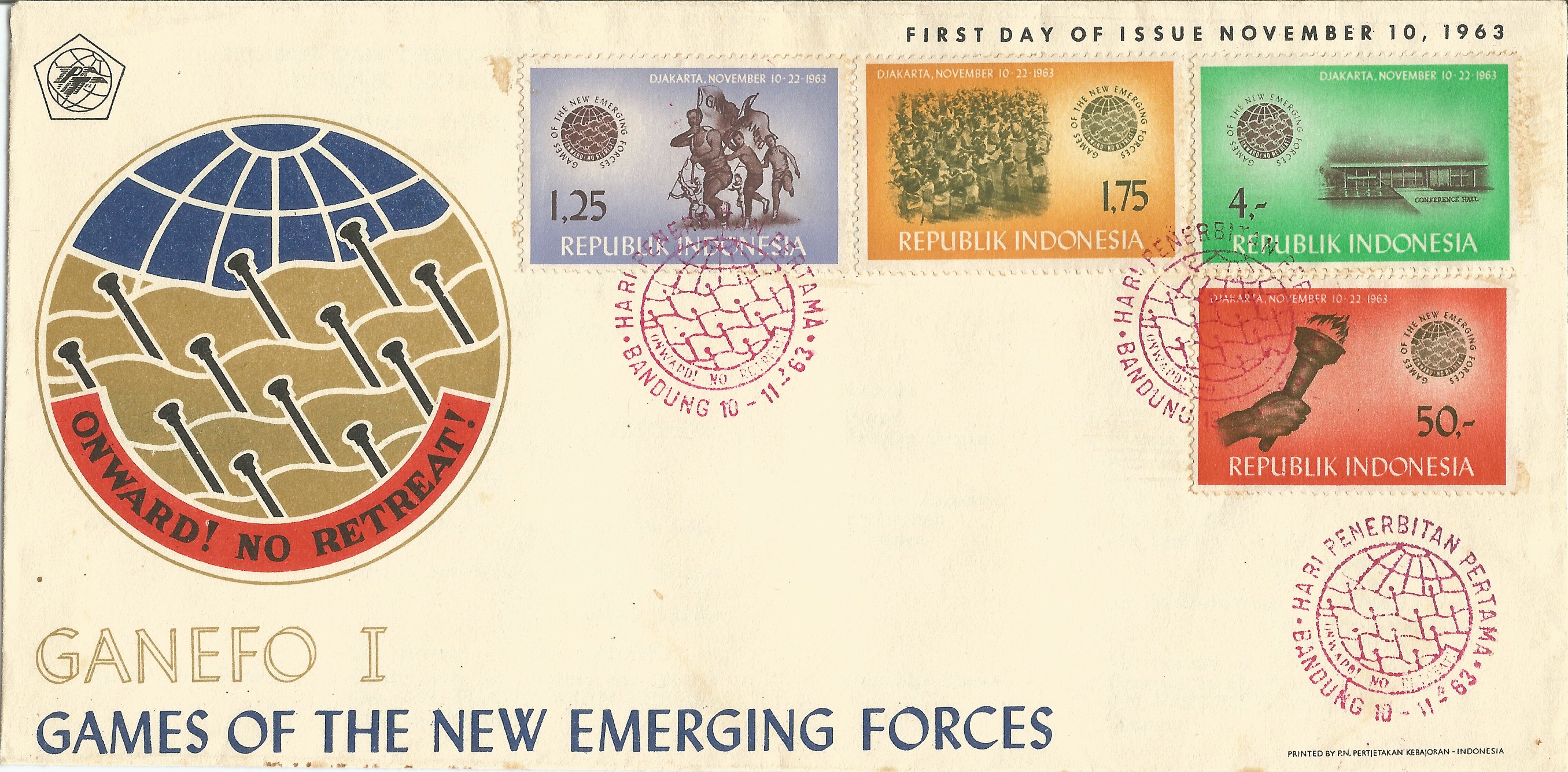 Commemmorative stamps of the "1st Games of the New Emerging Forces"